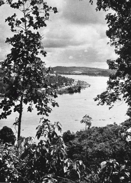 View over Samarinda and the Mahakam river